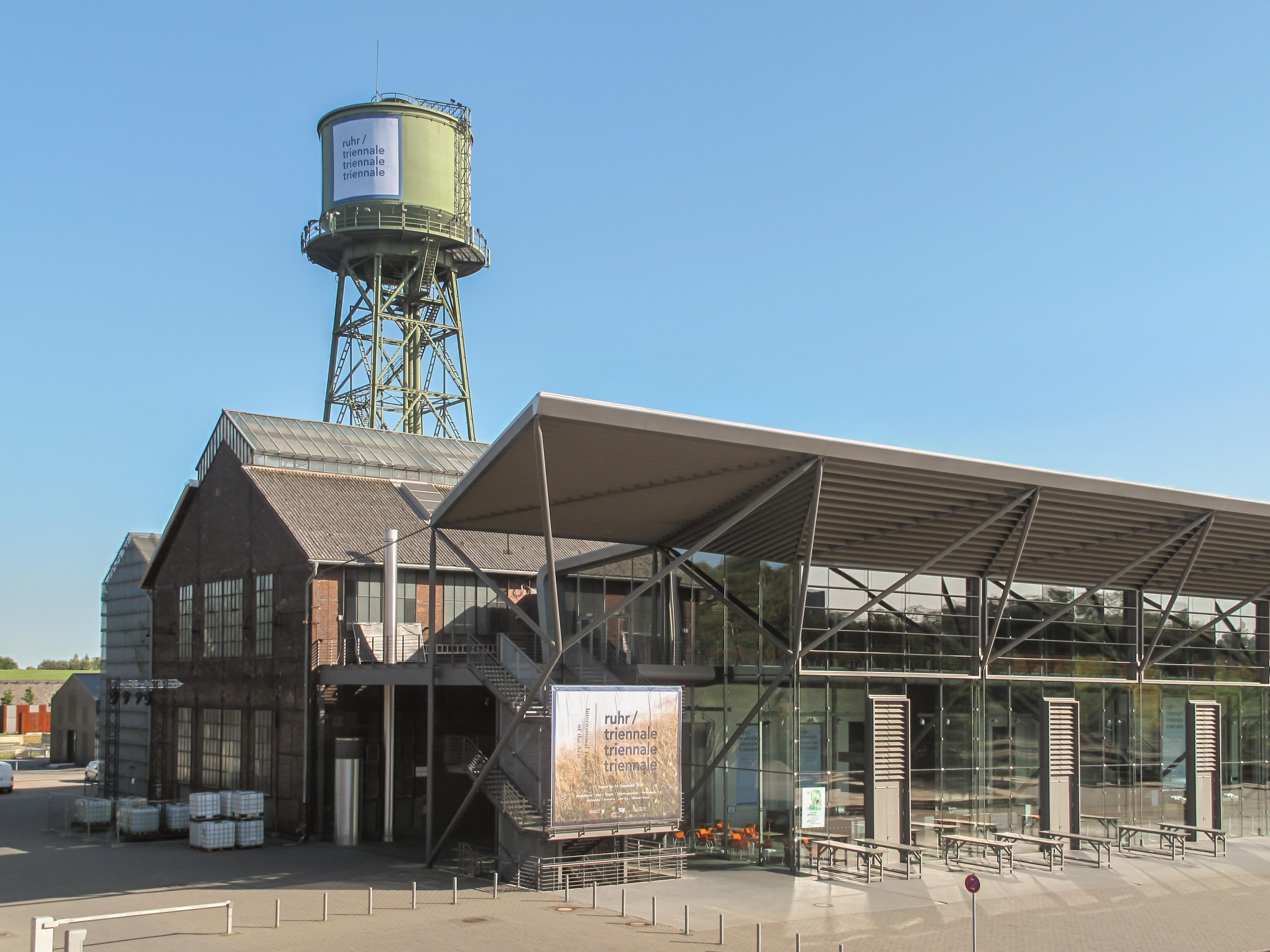 Bochum, former industrial building: Jahrhunderthalle